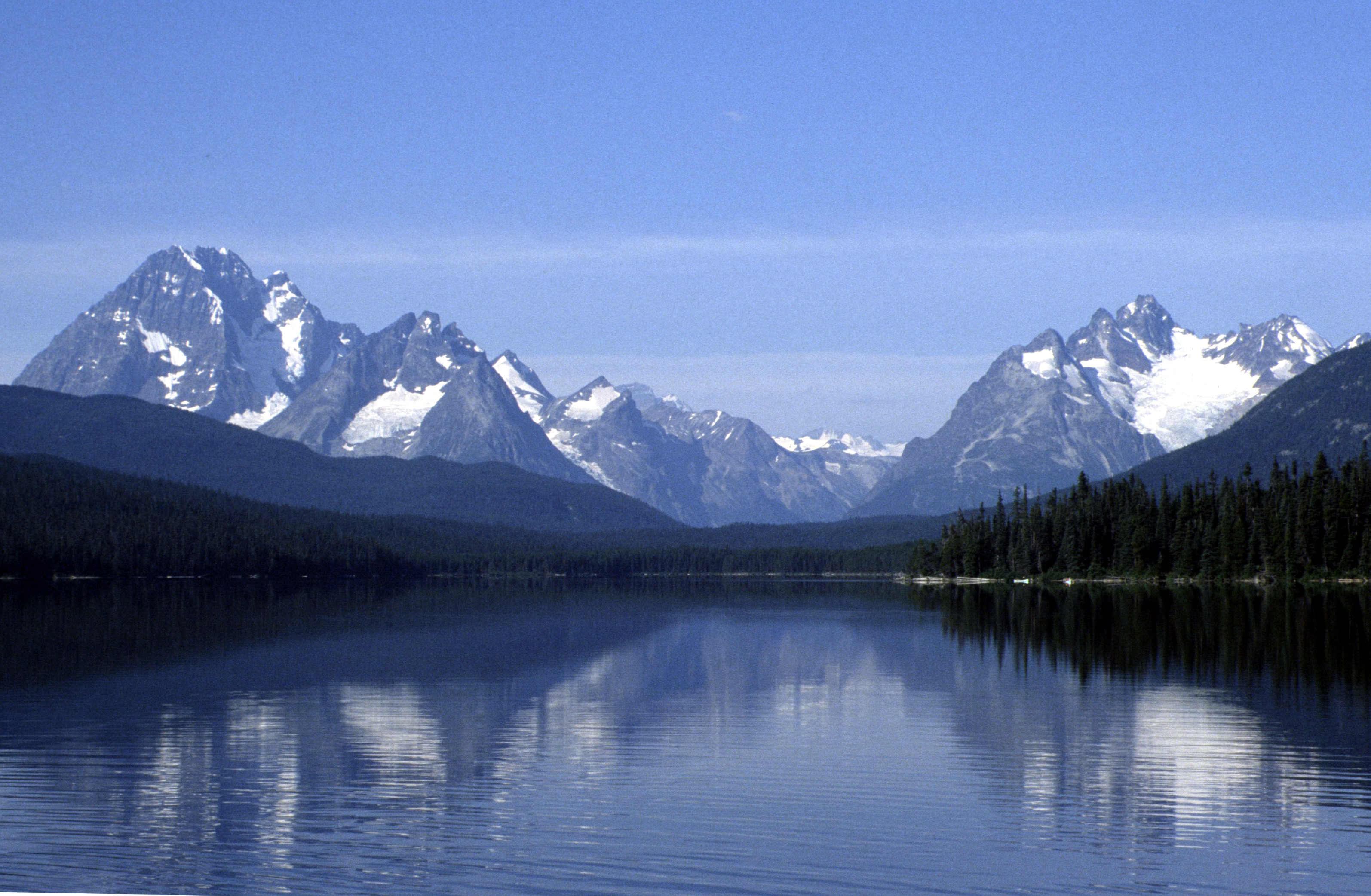 Junker Lake in BC, Canada, August 1981. Looking west towards Talchako Mountain on the left.